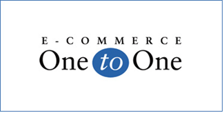 E-Commerce One to One, le rendez-vous d'affaires des leaders du e-commerce